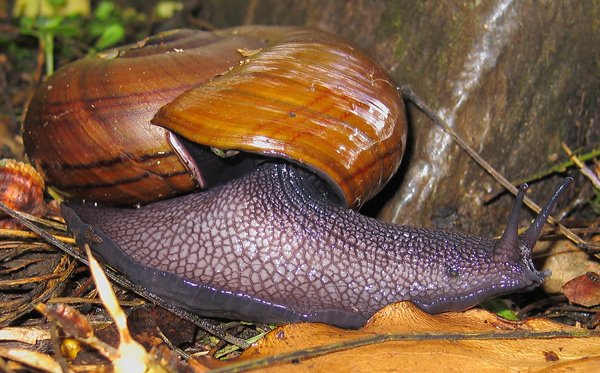 Powelliphanta hochstetteri, 2009, Rameka Track, Golden Bay area